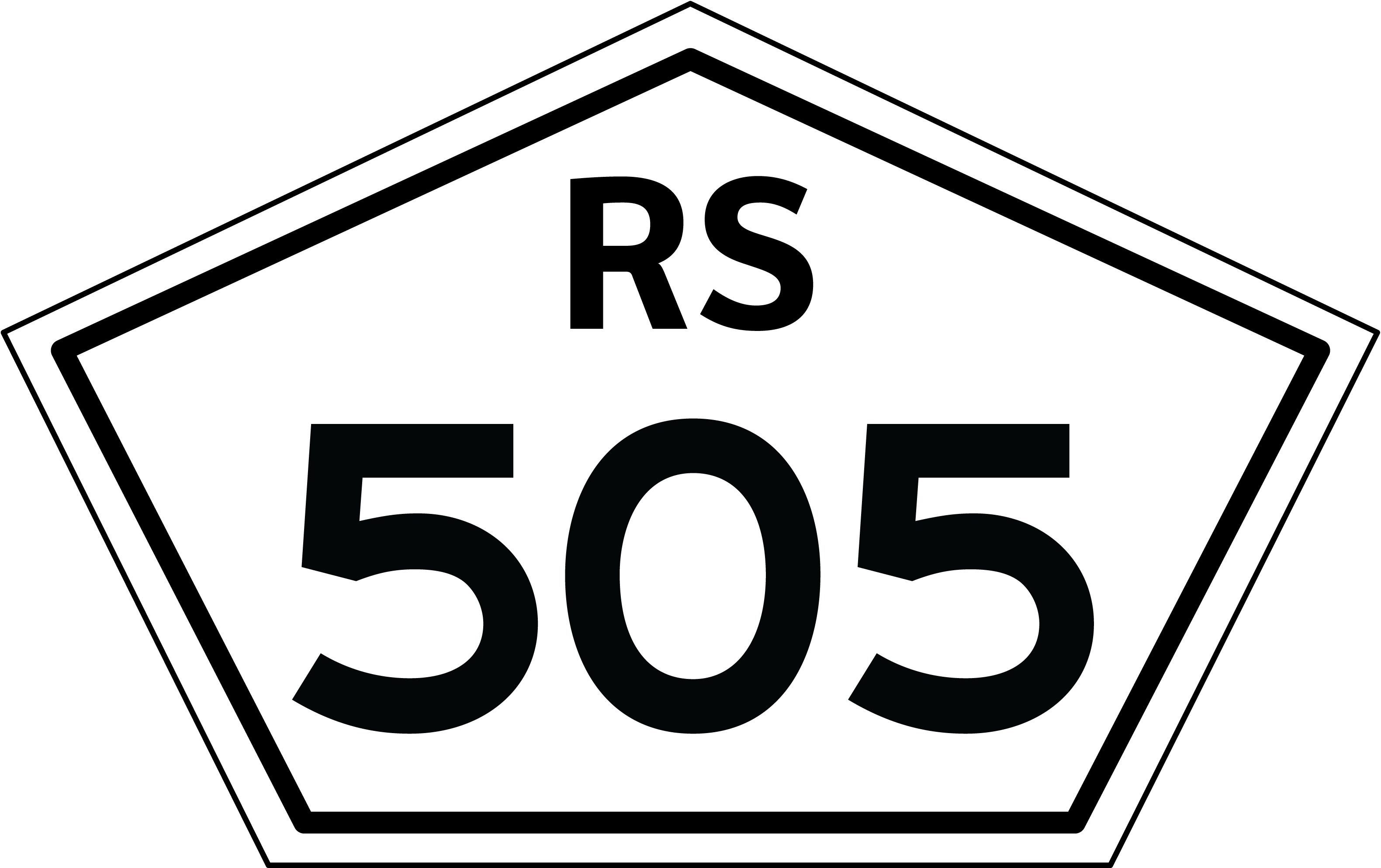 RS-505 State road in Rio Grande do Sul, Brazil. Rua estadual no Rio Grande do Sul, Brasil.